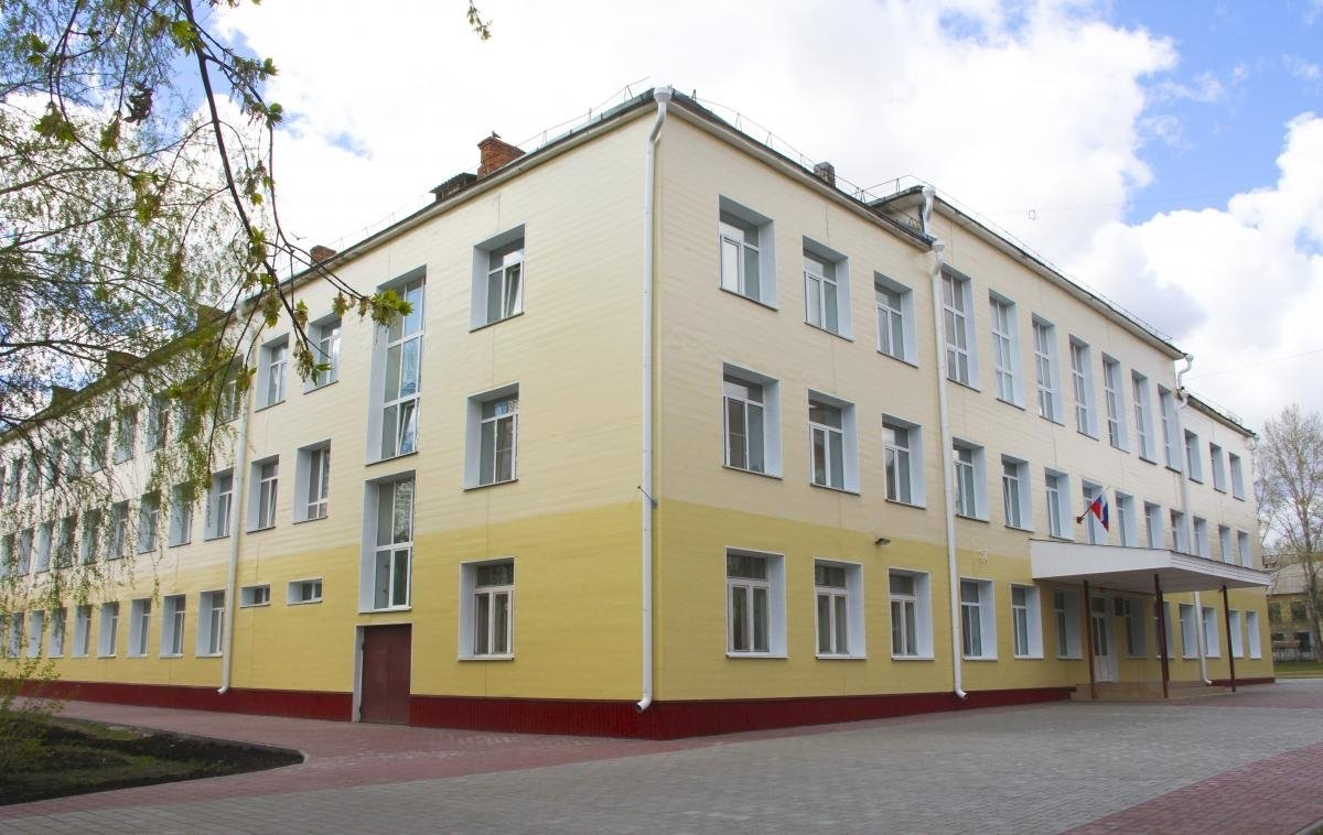 Omsk, school 117